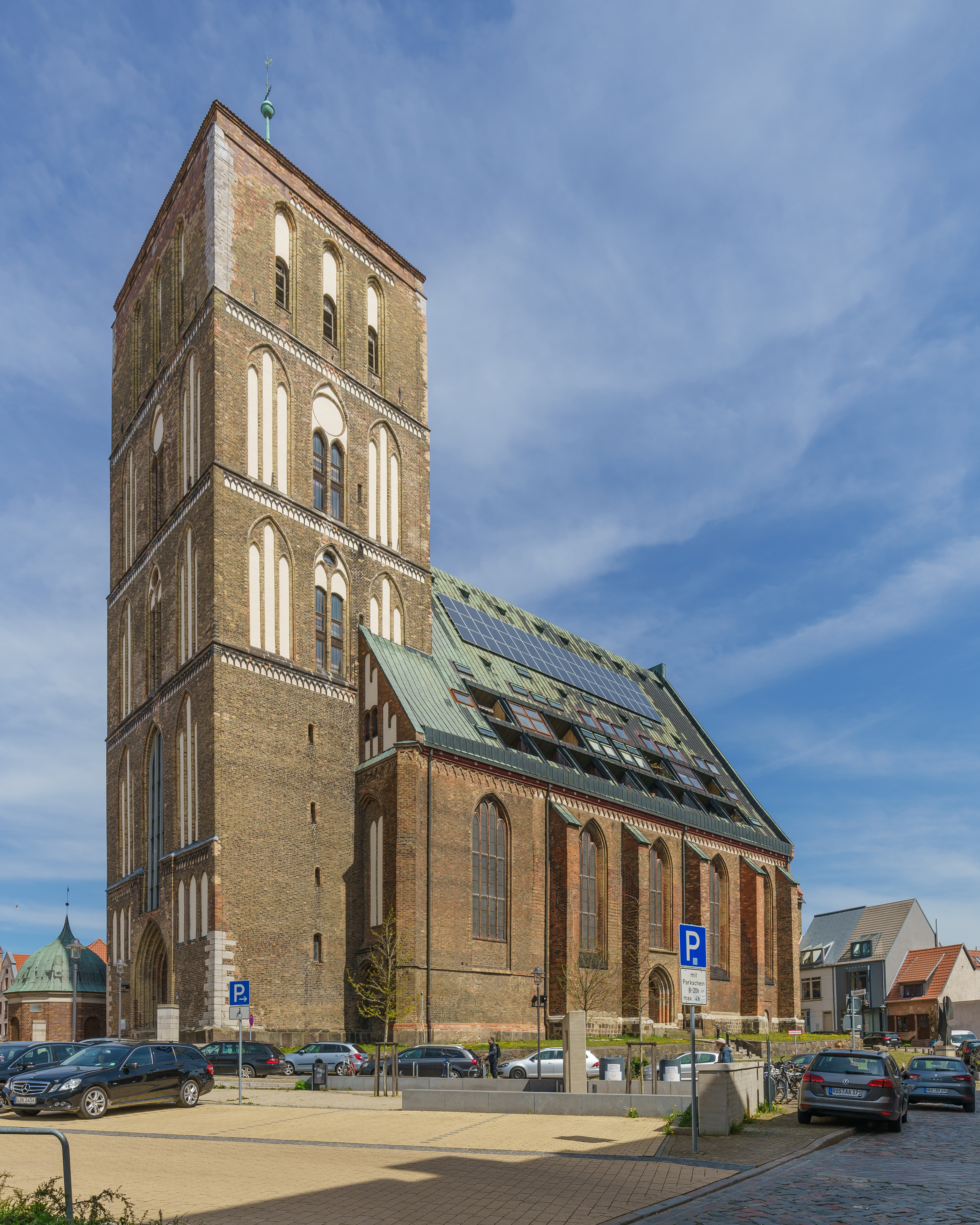 St. Nicholas Church in Rostock, Germany